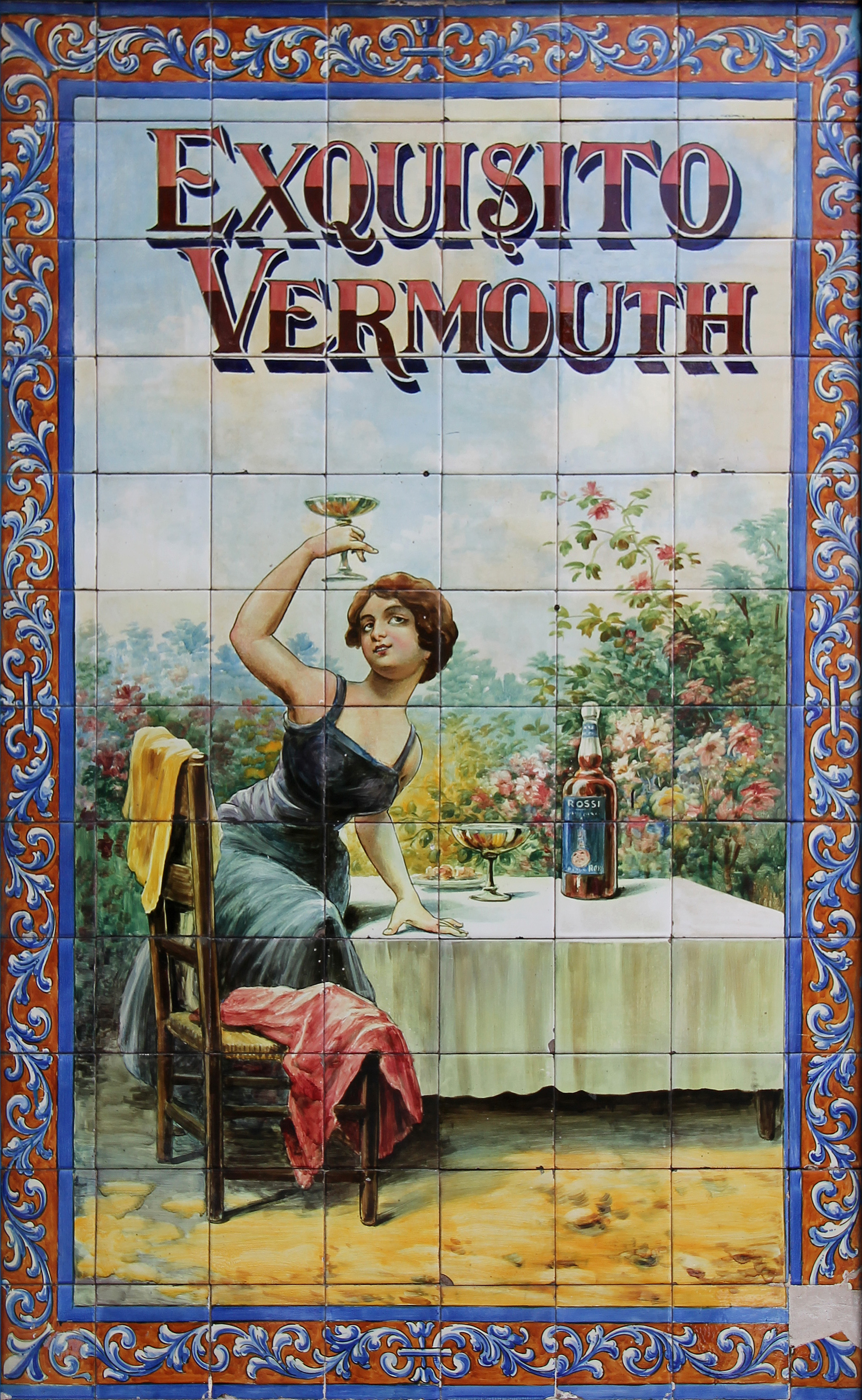 A vermouth advertisement.